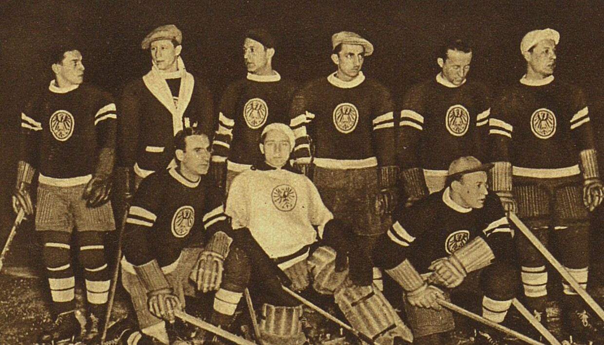 Austrian ice hockey team at the World Championship 1933 in Prague